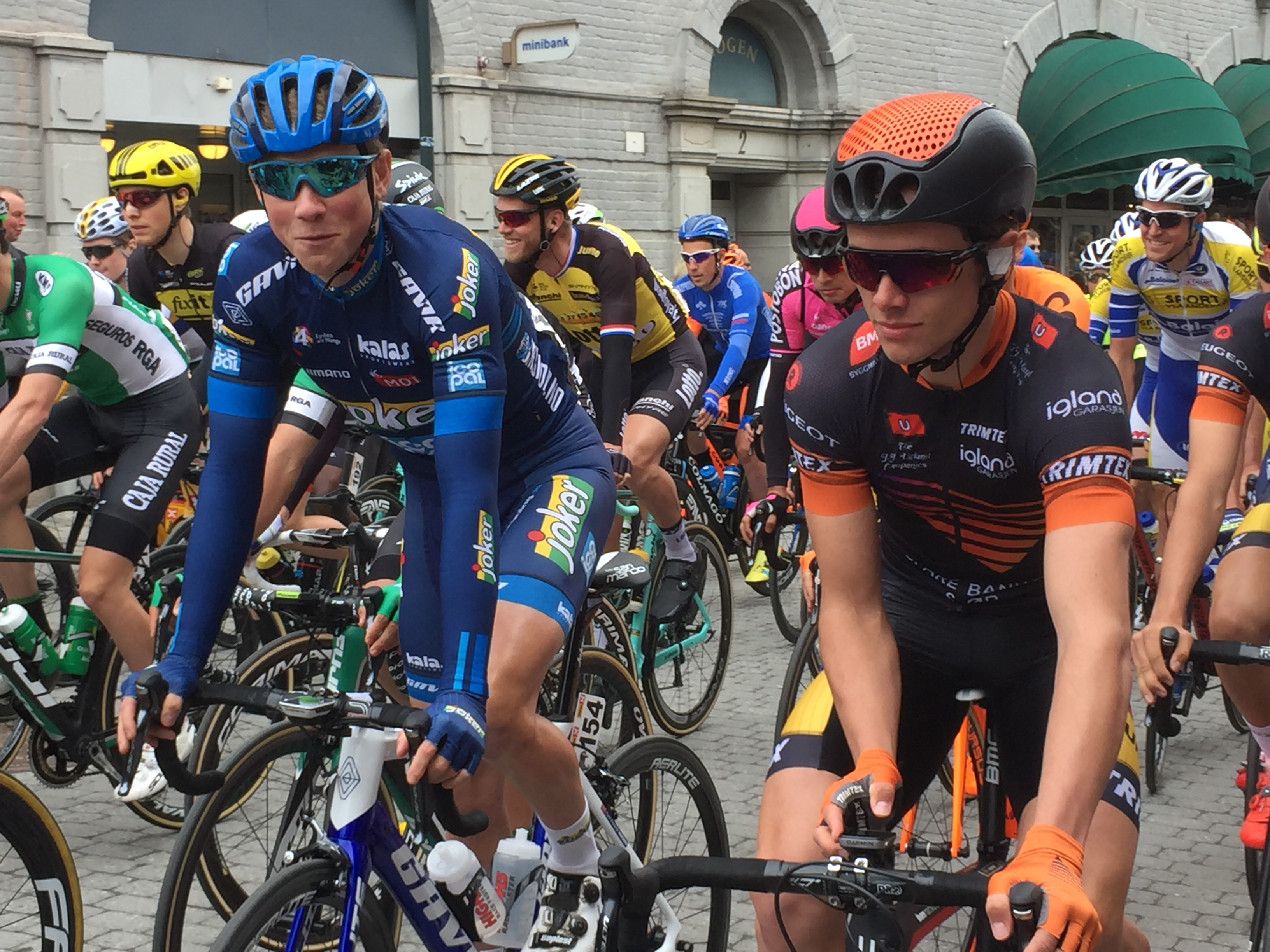 Tour of Norway 2017